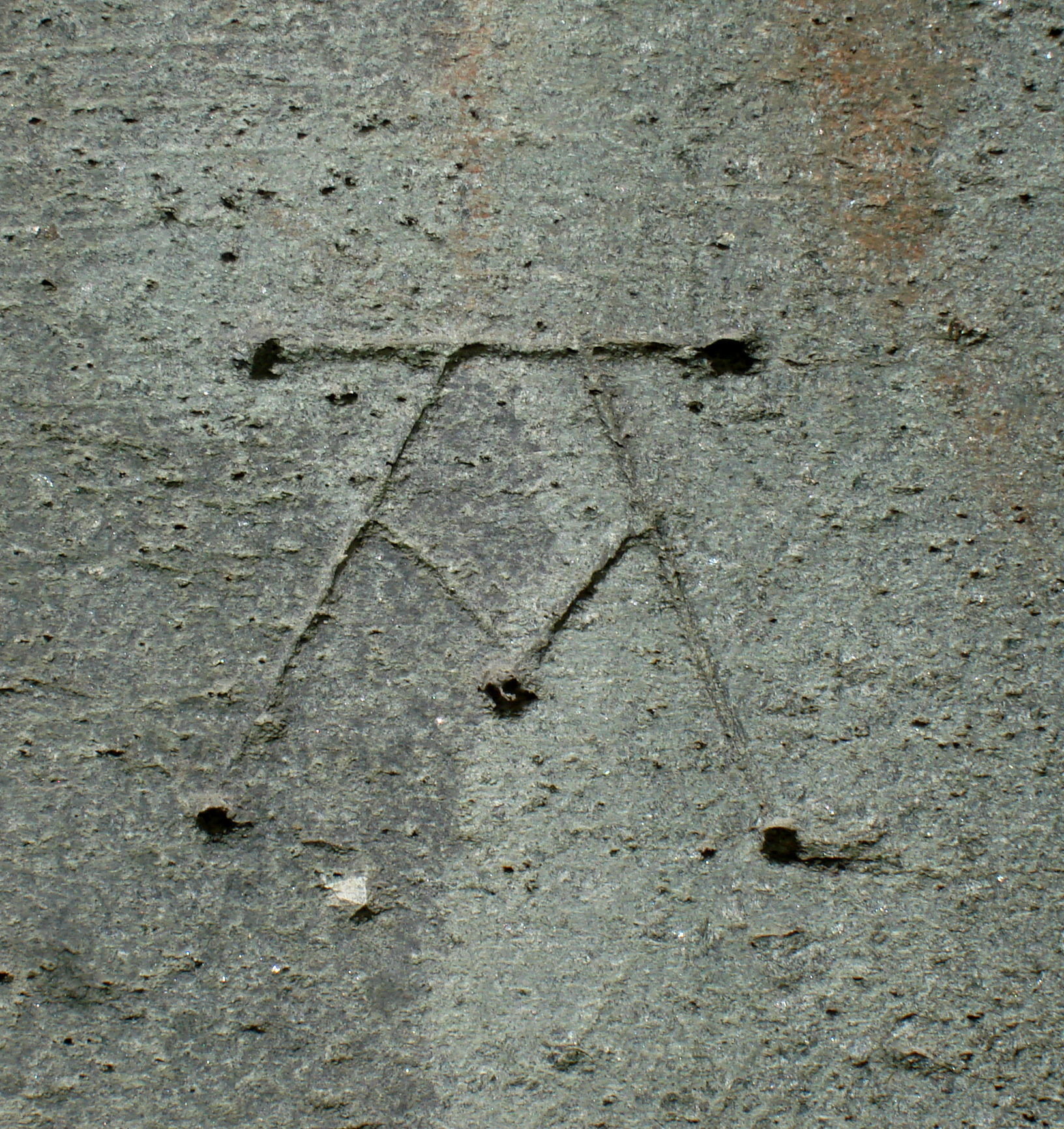 Stonemason's mark from the early gothic period, exterior of the octagonal chancel, Trondheim Cathedral